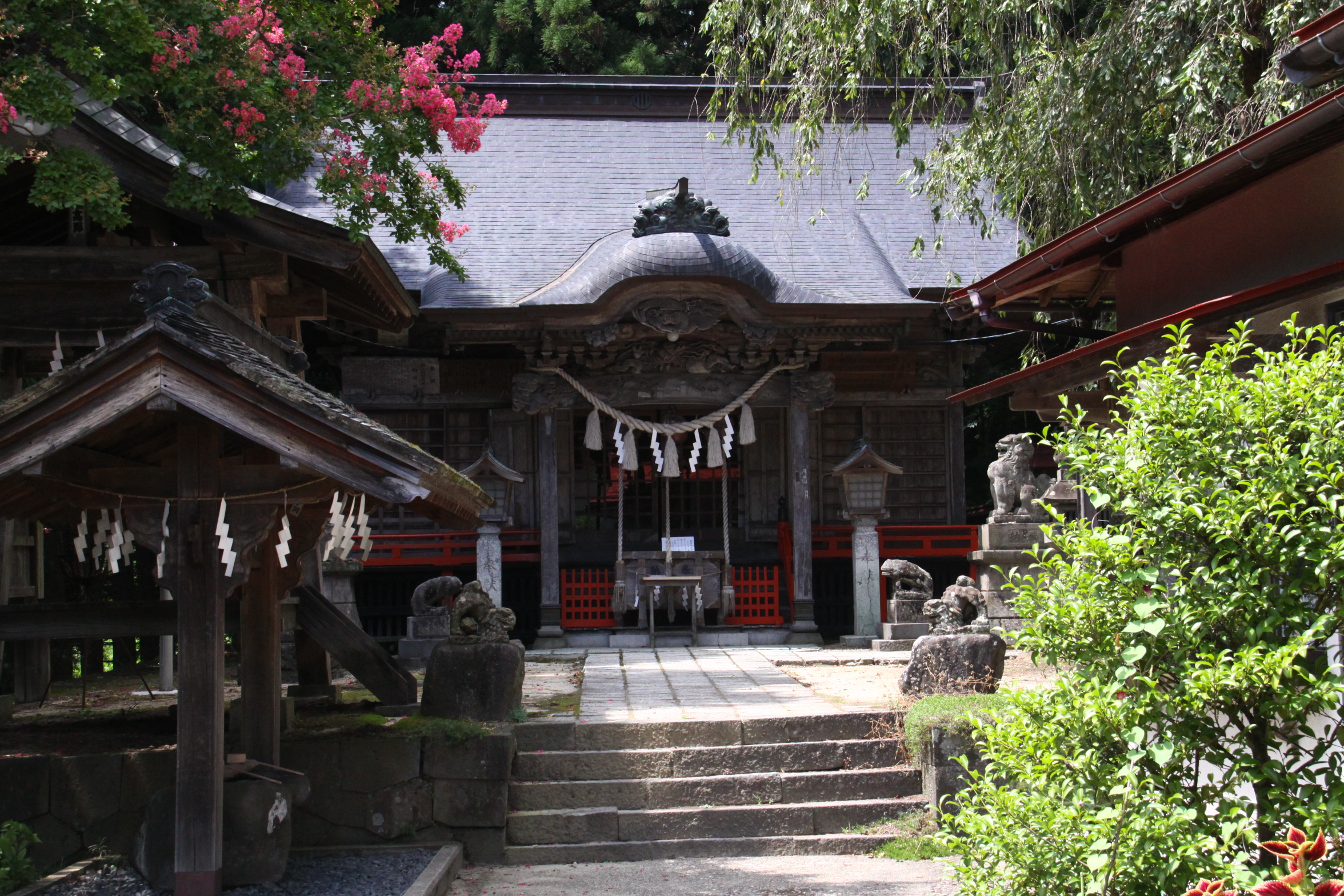 Kattamine jinja Haiden